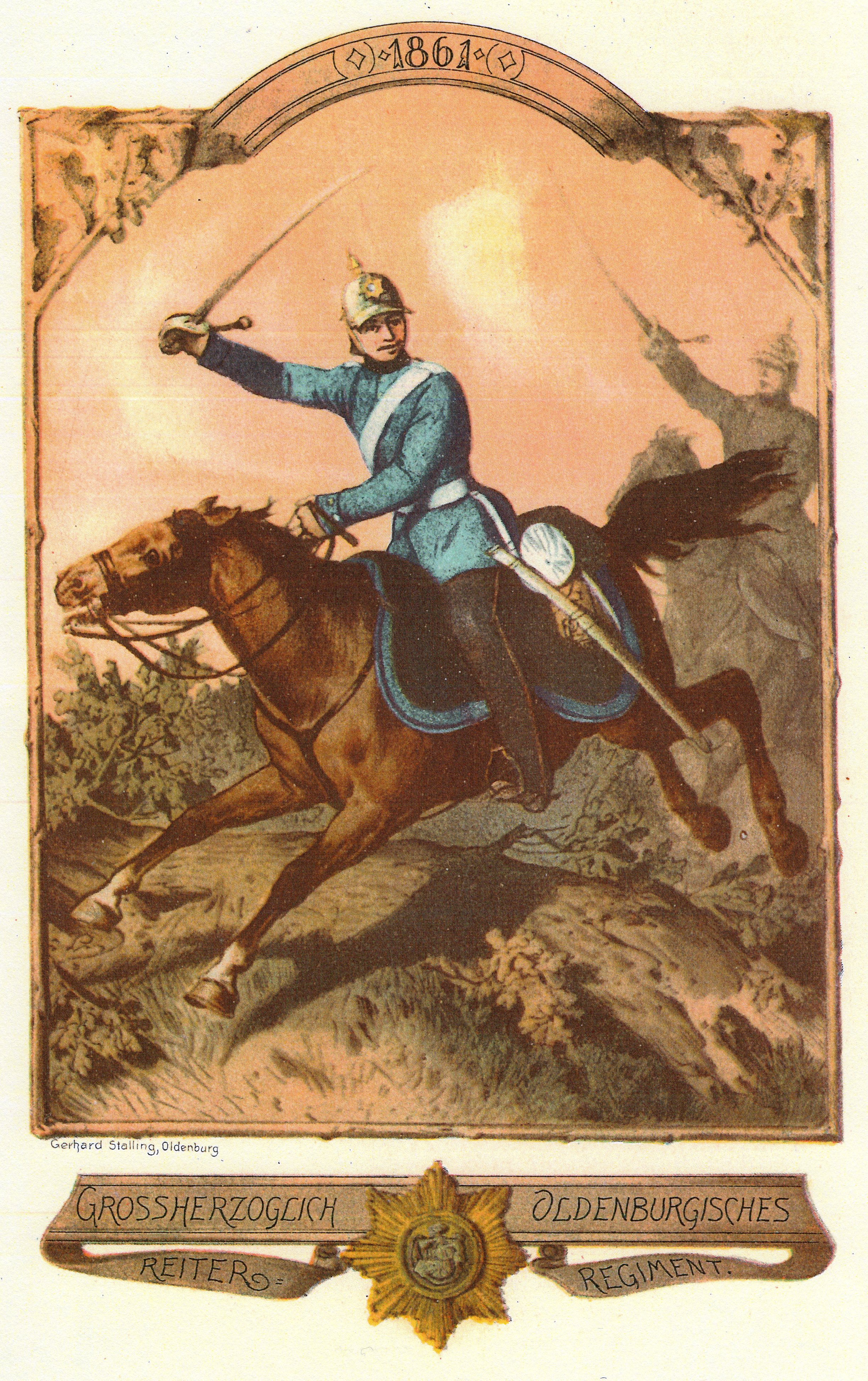 Horseman of the Horse regiment of the Grandduke of Oldenburg 1861, wearing a blue coat in Prussian dragoon style, introduced in 1850.